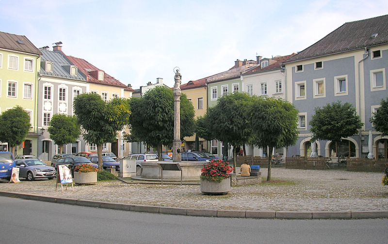 Laufen an der Salzach (Landkreis Berchtesgadener Land, Upper Bavaria, Germany). The Marienplatz with the marian column